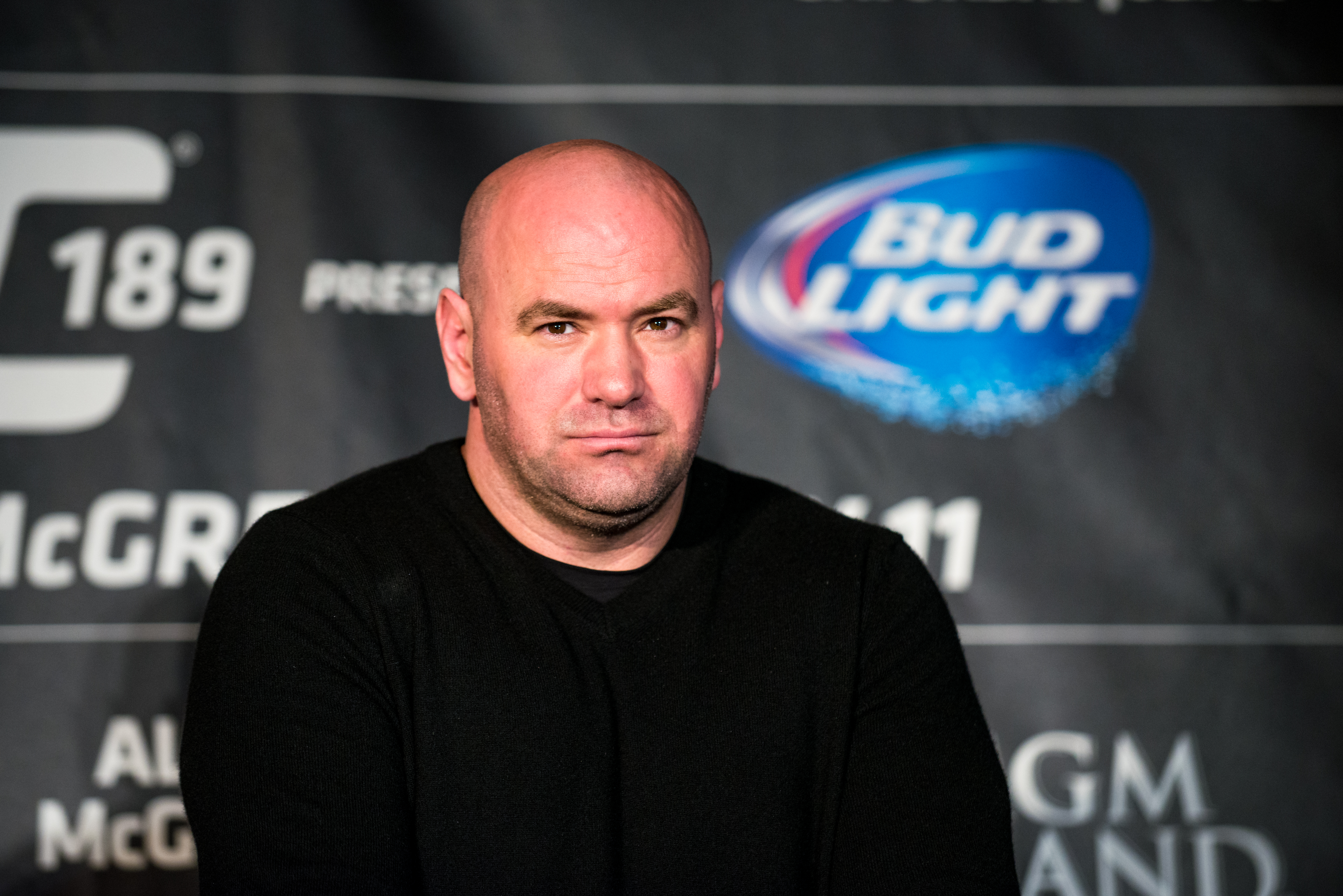 UFC 189 World Tour Aldo vs. McGregor London 2015